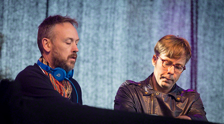 Basement Jaxx performs at Quart Festival in Kristiansand on 28. June 2016. Lineup:Simon Ratcliffe (Disc jockey)Felix Buxton (Disc jockey)